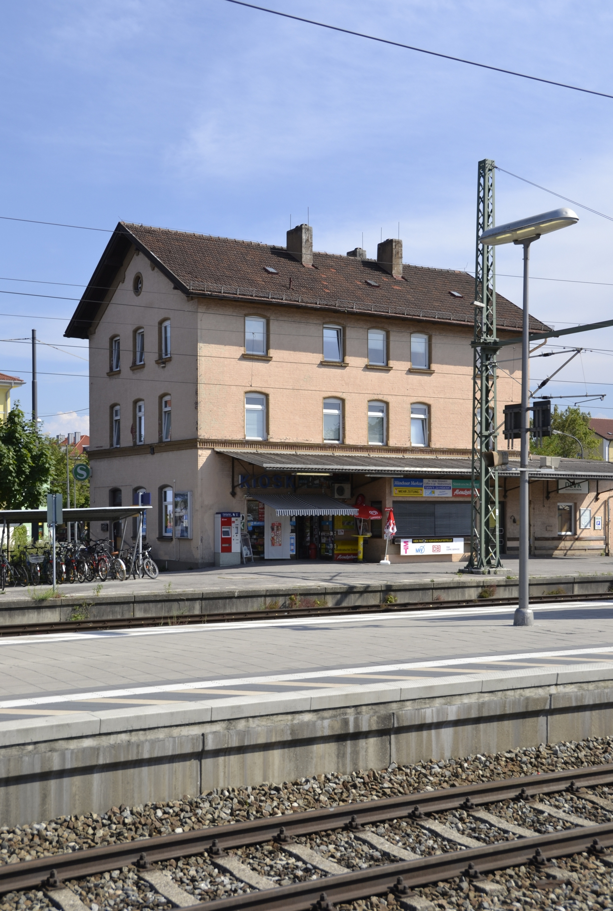 Train station München-Moosach in Munich, Germany.